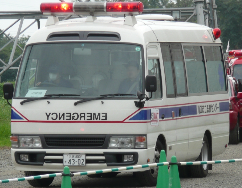 Toyota Ambulance, with "EMERGENCY" in mirror writing ("YCNEGREME")